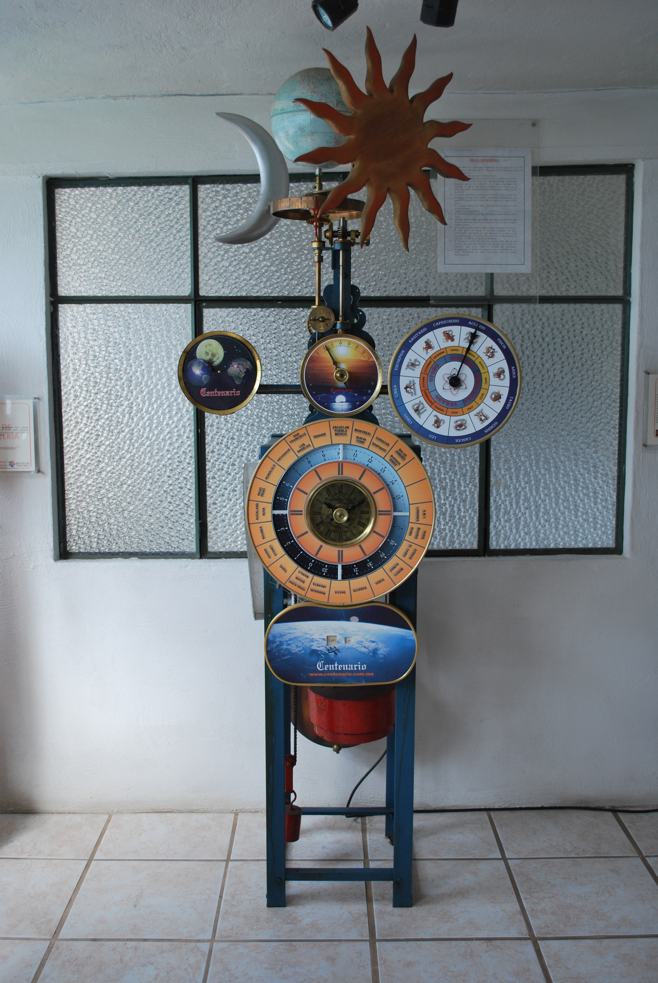 "Universal Clock" at the Clock Museum in Zacatlán, Puebla, Mexico